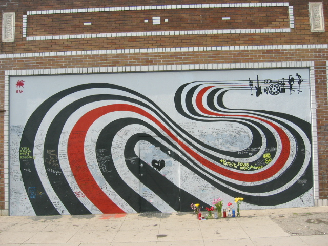 Photo taken by Dudesleeper.